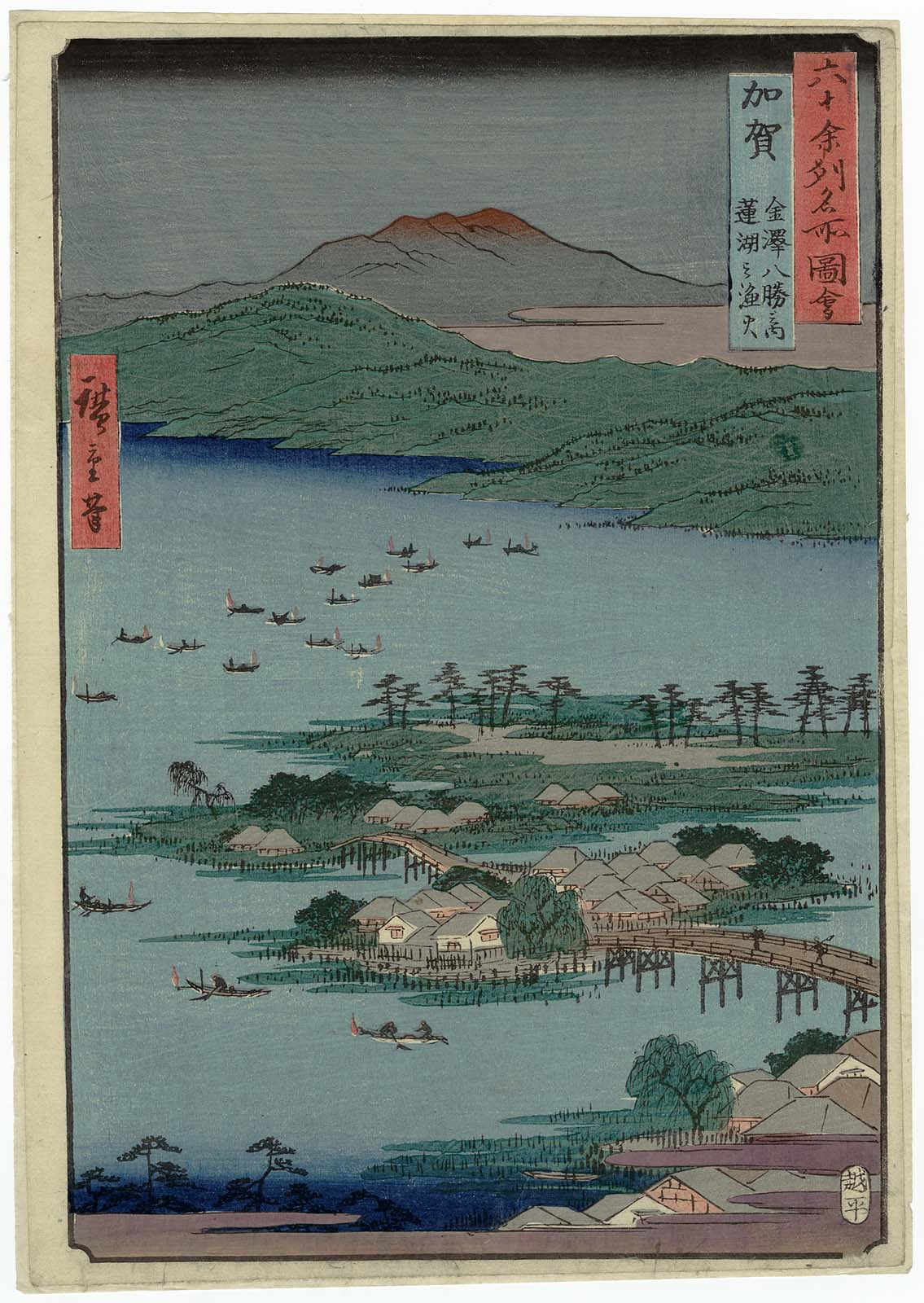 Part of the series Famous Places in the Sixty-odd Provinces, No. 32 (Hokurikudō group)